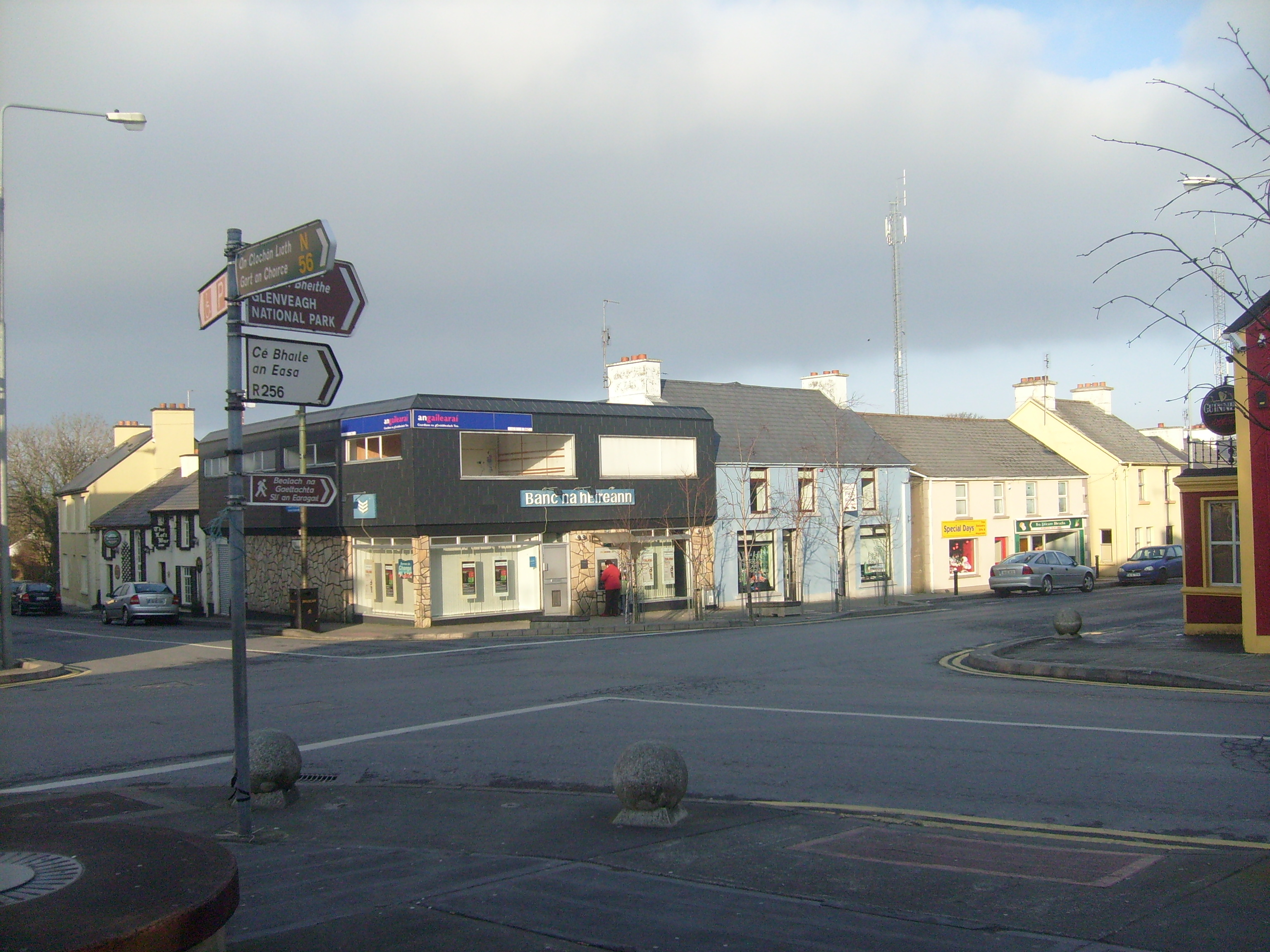 A view of Falcarragh main streetGaeilge: Radharc do phríomhshráid An Fál Carrach